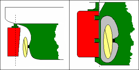 aft perpendiculars graphic